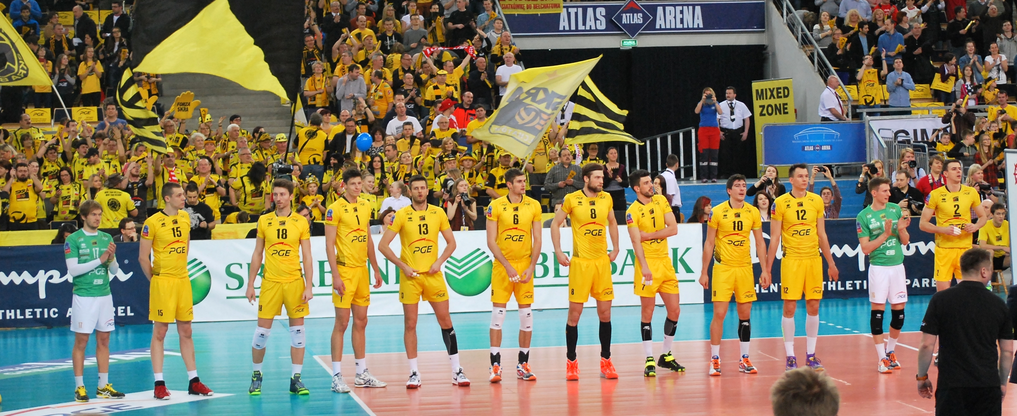 Skra Bełchatów 2015-02